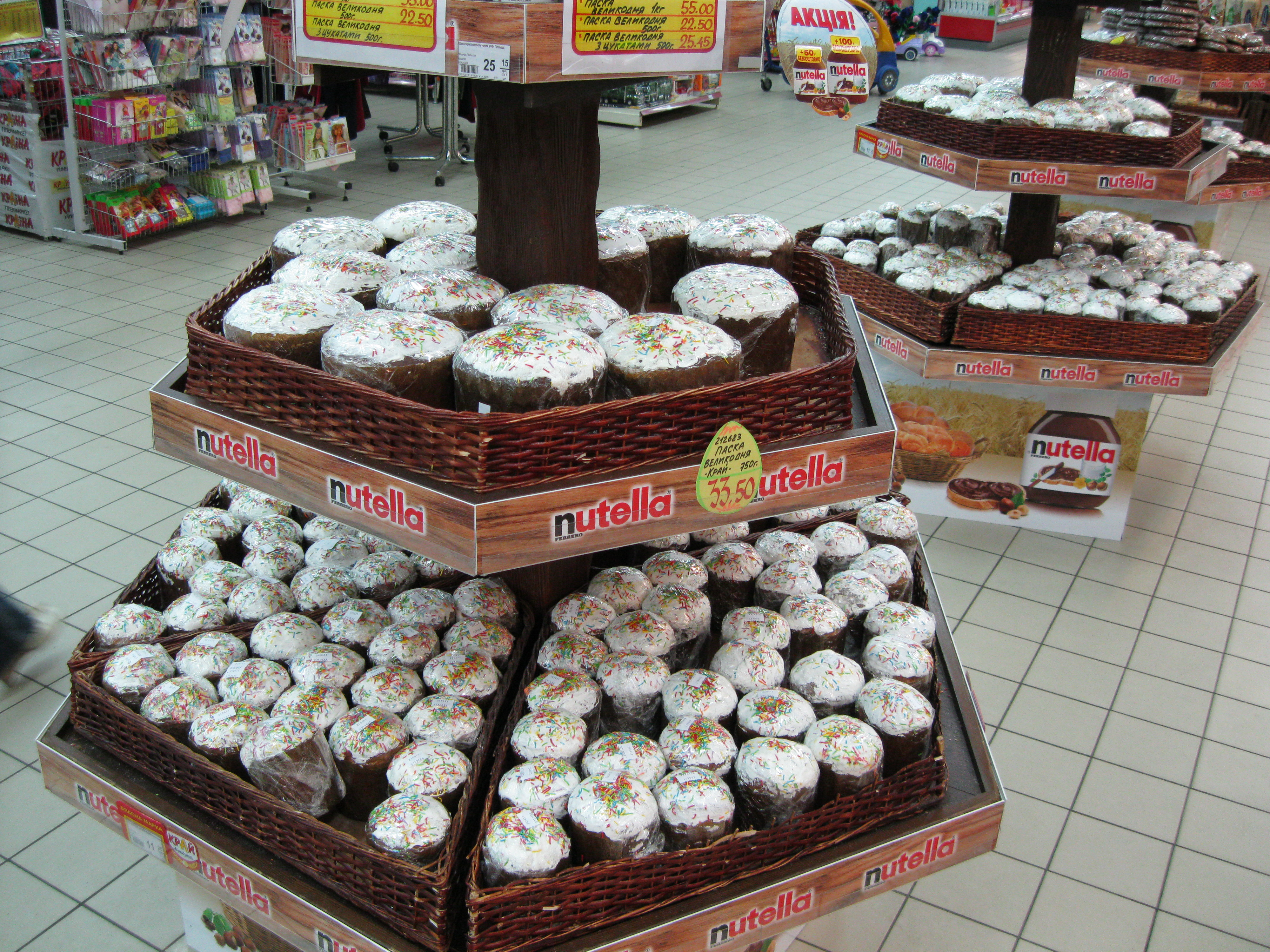 Easter breads Paska (Kulich) for sale in Kiev